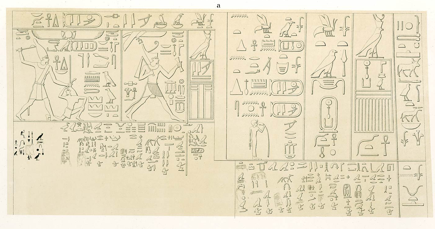 Rock inscription of Pepi II at Wadi Maghara, Sinai.